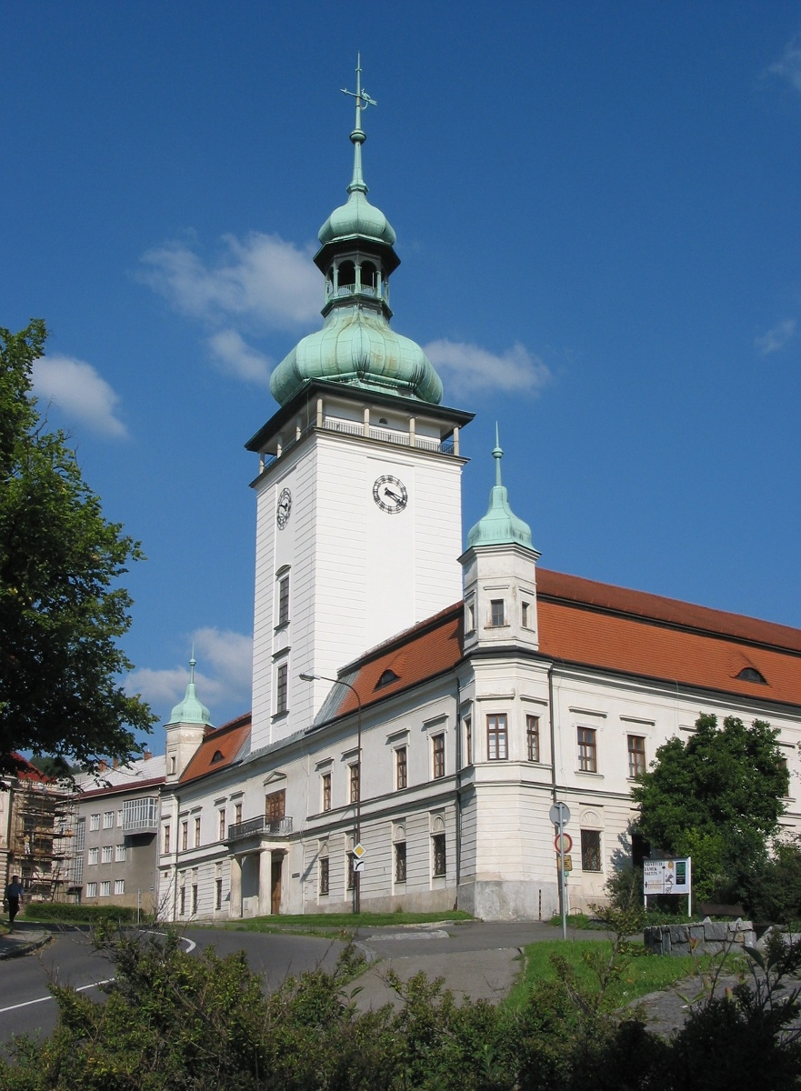 Vsetín Chateau